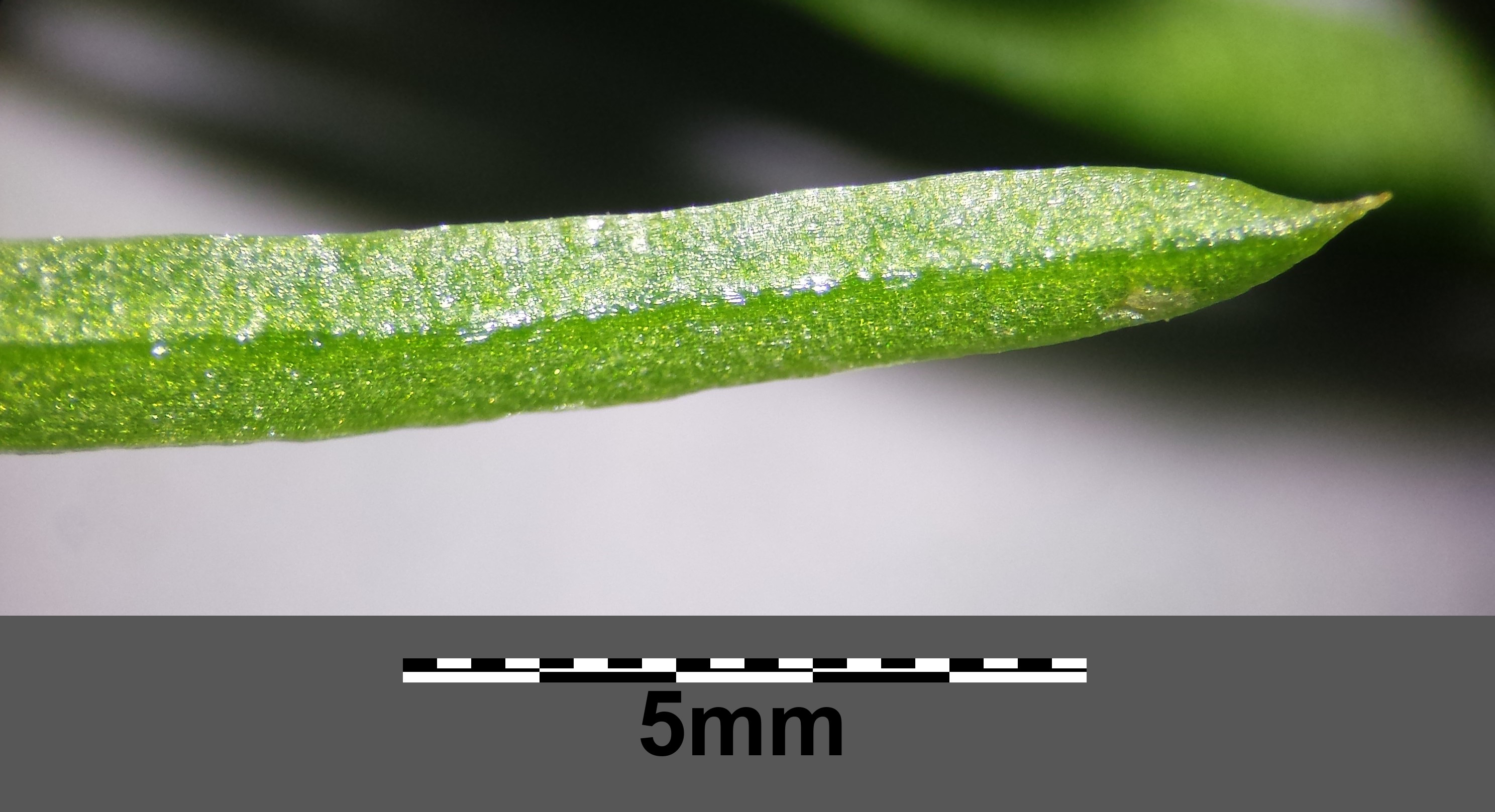 Bottom side of leaf Taxonym: Thesium dollineri ss Fischer et al. EfÖLS 2008 ISBN 978-3-85474-187-9 Location: near Schleinbach, district Mistelbach, Lower Austria - ca. 280 m a.s.l. Habitat: slope of a way